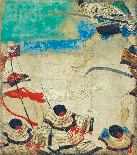 Fragment of the Scroll of the Rokuhara Battle, belonging to the Heiji Monogatari Emaki.